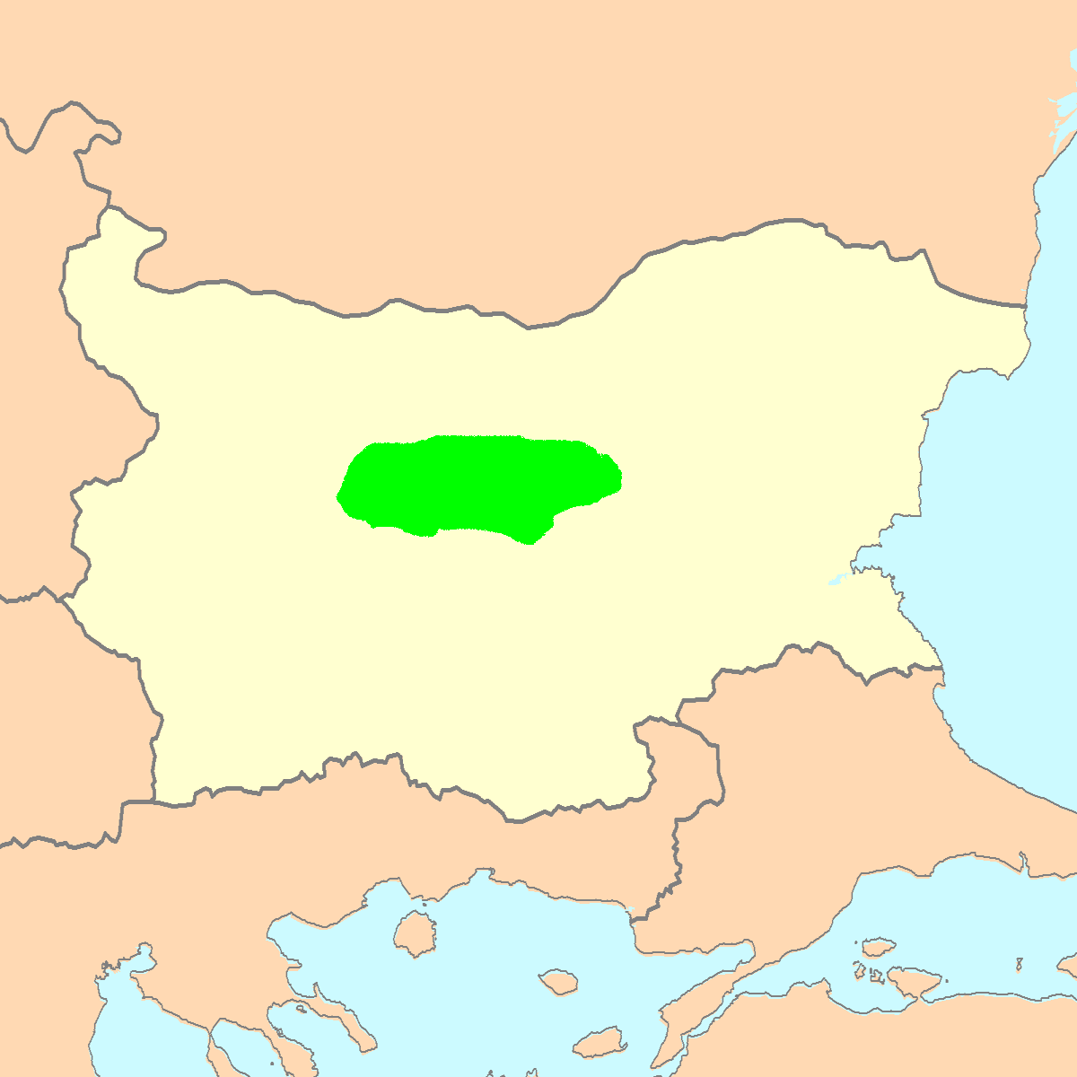 Stara Planina Tzigay areal of distribution